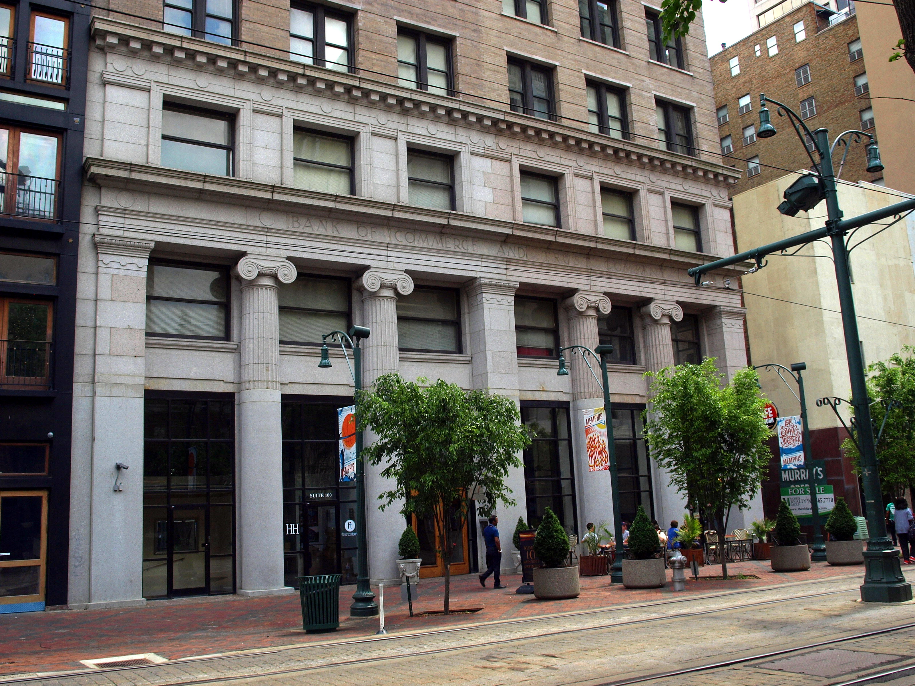 The Memphis Trust Building in Memphis, Tennessee, listed on the National Register of Historic Places.